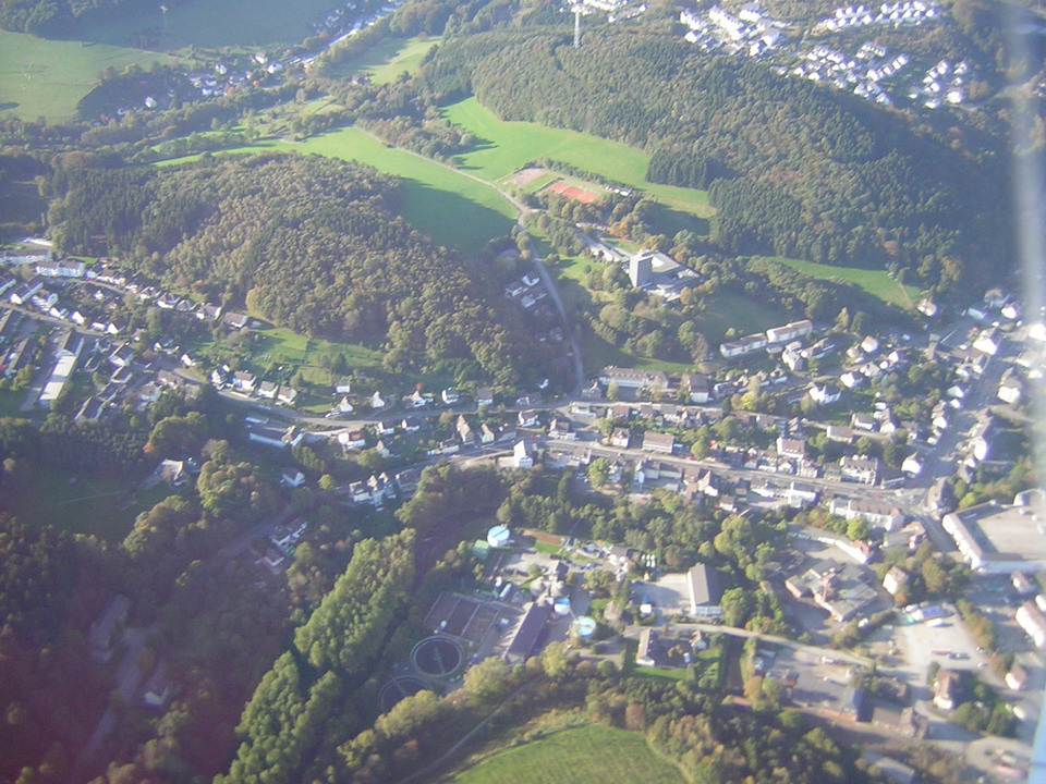 Aerial view - Niederseßmar - Dreieck on the right the triangle, mitte upperpart the Theodor-Heuss academy.